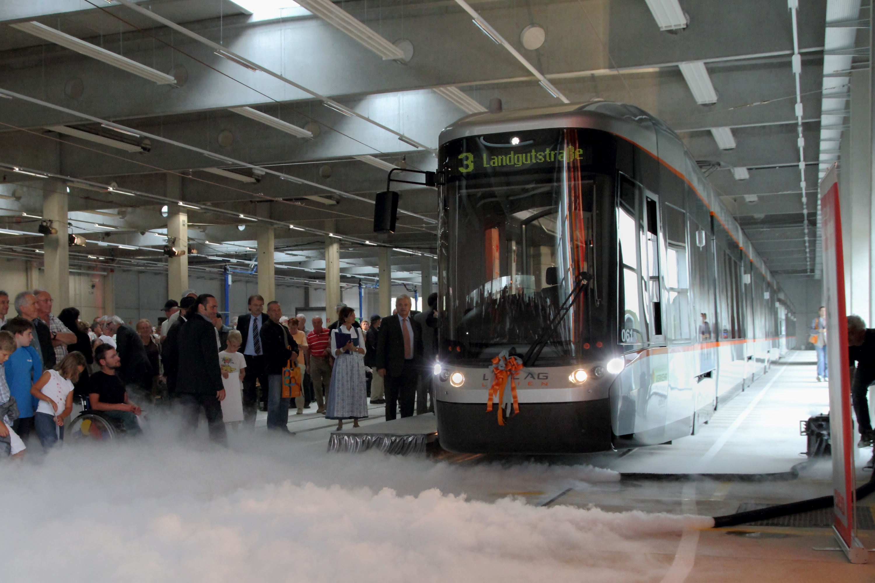 The opening train of the line 3 extension to Leonding leaving the depot at Weingartshof.